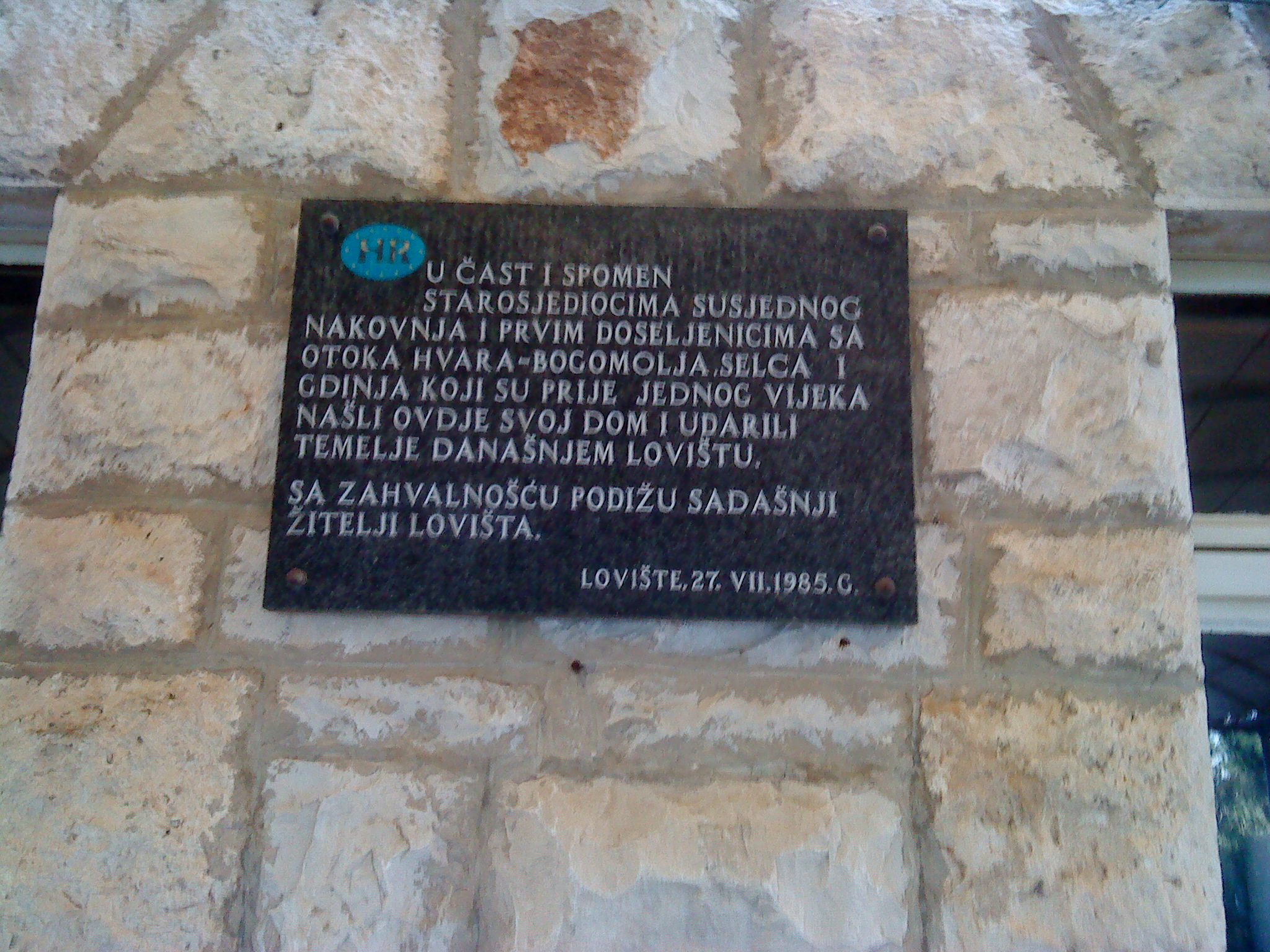 Memorial plaque to early settlers, Lovište